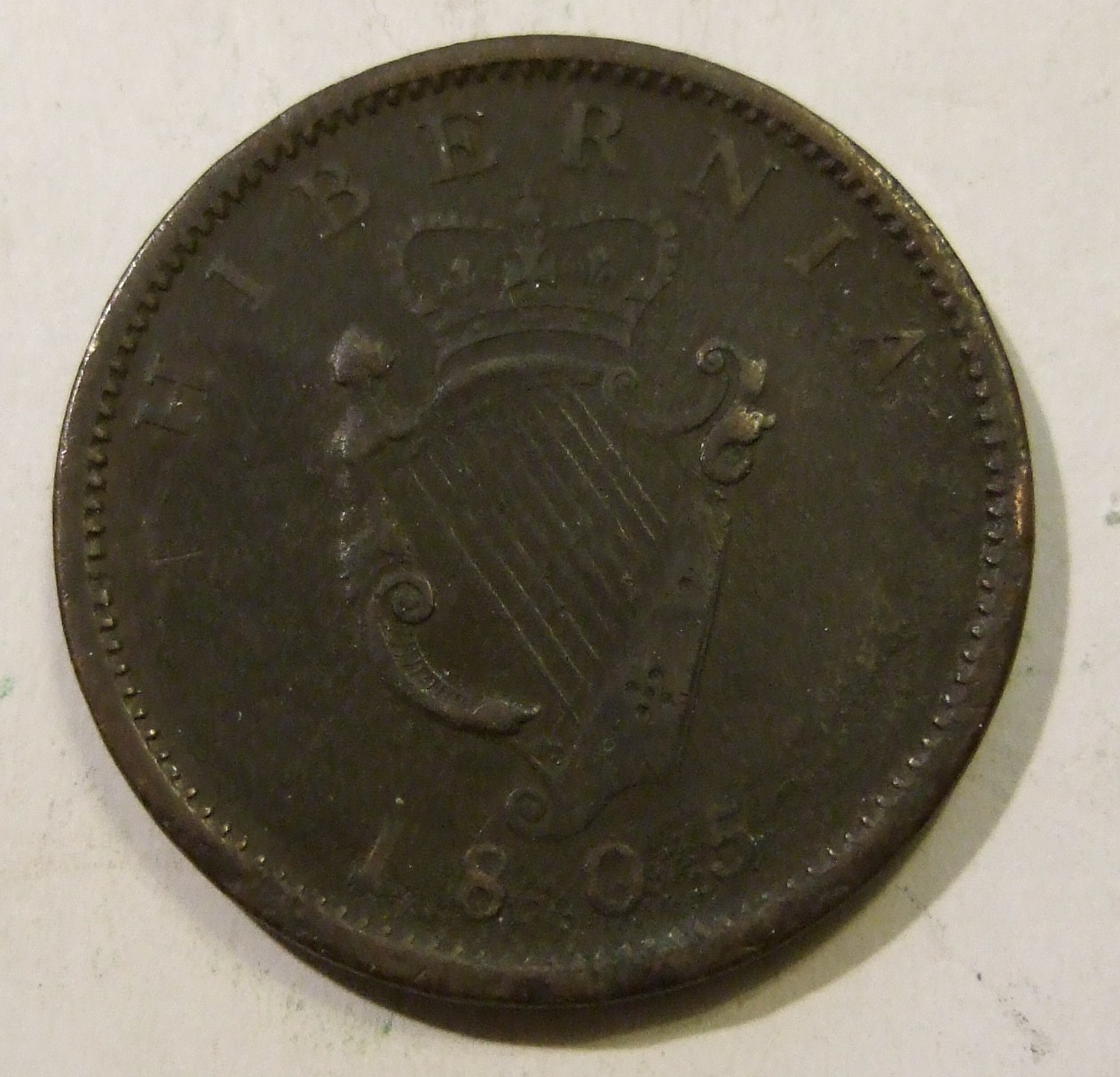 IRELAND, GEORGE III 1805 ---ONE PENNY a